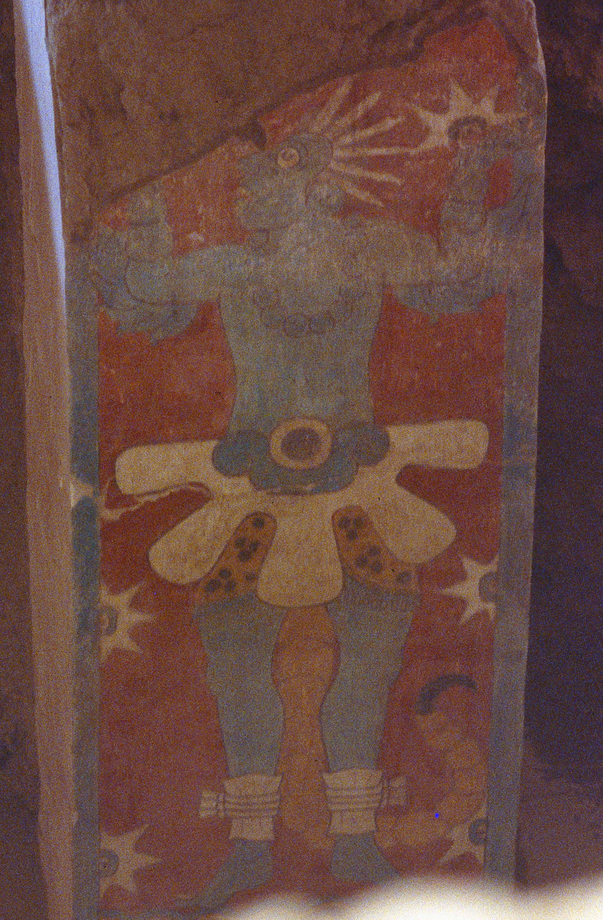 Cacaxtla, Tlaxcala, Mexico: mural of Venus Temple